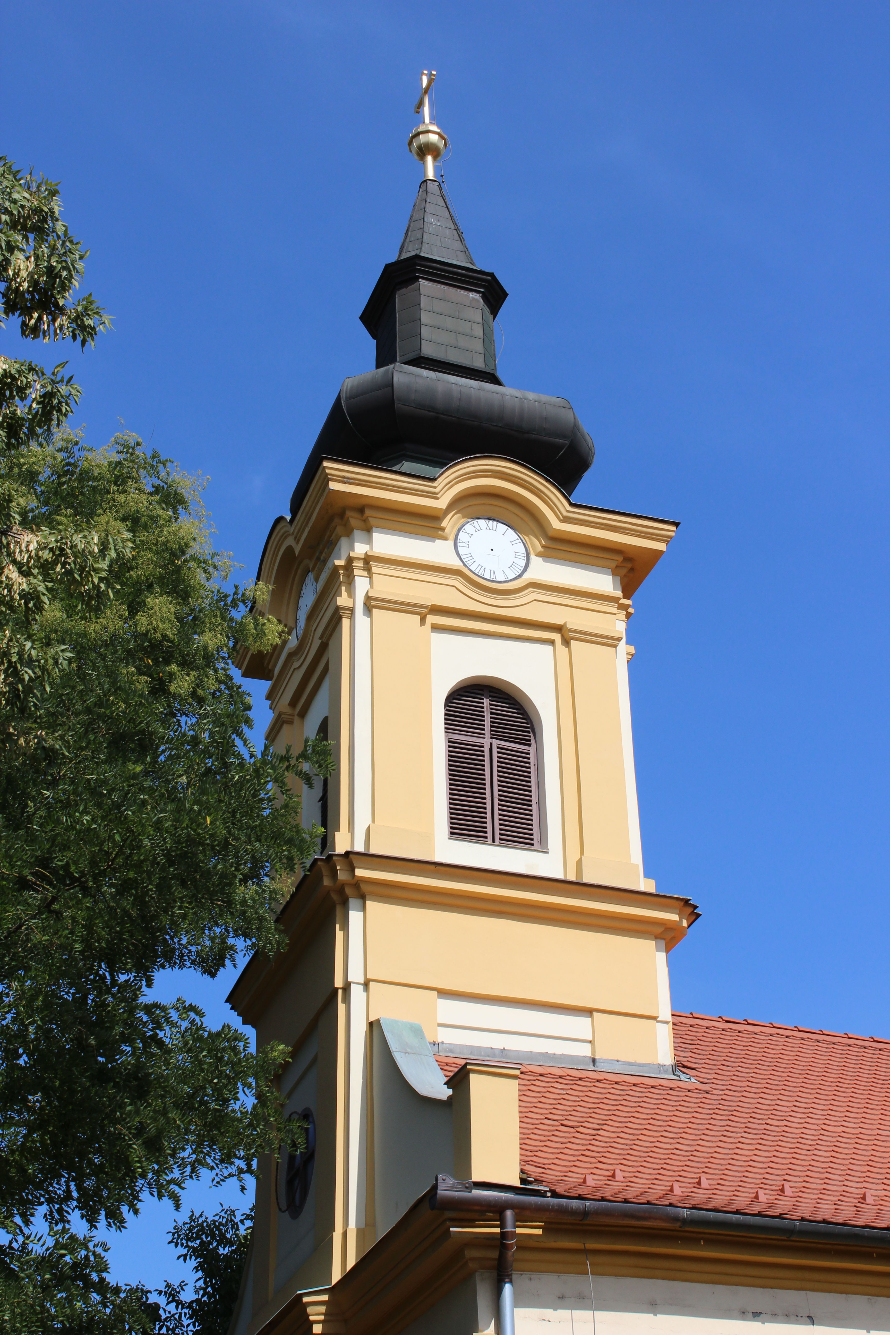 Romanian Orthodox Church (Békéscsaba, Hungary).